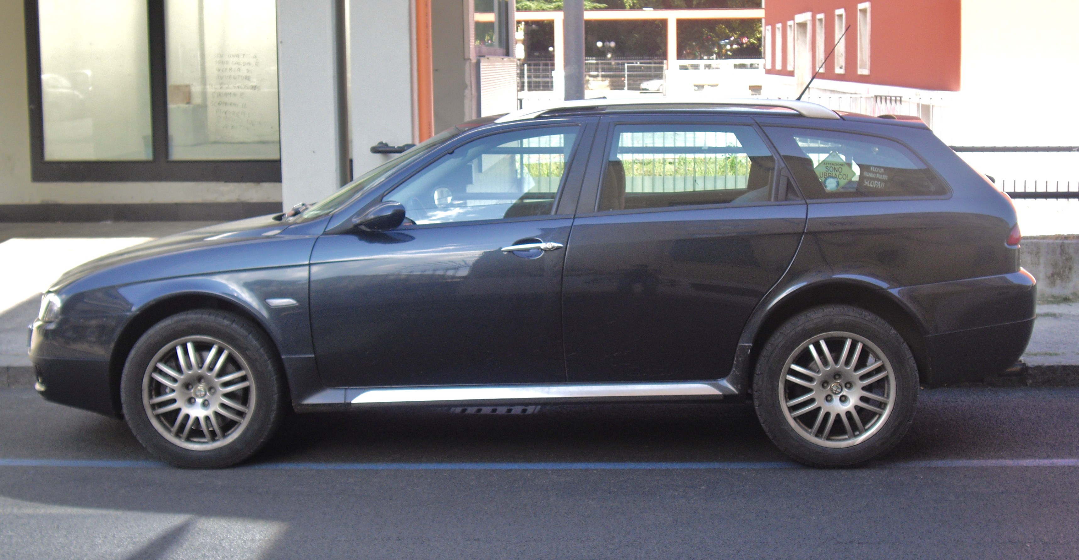 Alfa Romeo 156 Crosswagon